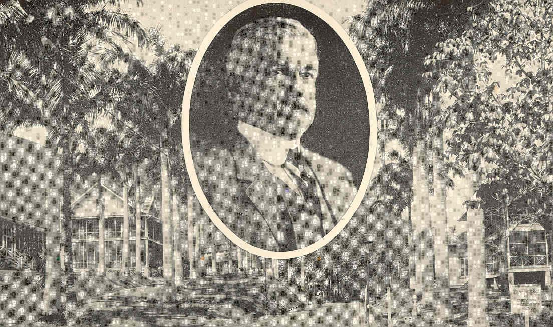 Col. William C. Gorgas; the Hospital Grounds, Ancon Subject: Gorgas, William Crawford, 1854-1920, Physicians--United States, Ancon (Panama), Hospitals--Panama Geographic Subject: Panama--Ancon Tag: Panama Canal, People